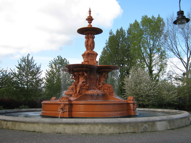 Ornate Fountain in Victoria Park This park is on Jemmett Road, it is bounded on one side by the River Stour. The park was opened officially in 1899. The fountain, which is 'listed' was purchased from the Great Exhibition of London 1851, by Major Sawbridge Erle-Drax. He installed it on his estate at Olantigh near Wye. In 1912, the estate was sold to a businessman who presented the fountain to Ashford Borough Council. The Stour Valley Walk (long distance path) goes through the park. The "Hubert Fountain" as a french origin (Barbezat - Val d'Osne foundry - Haute-Marne - France)